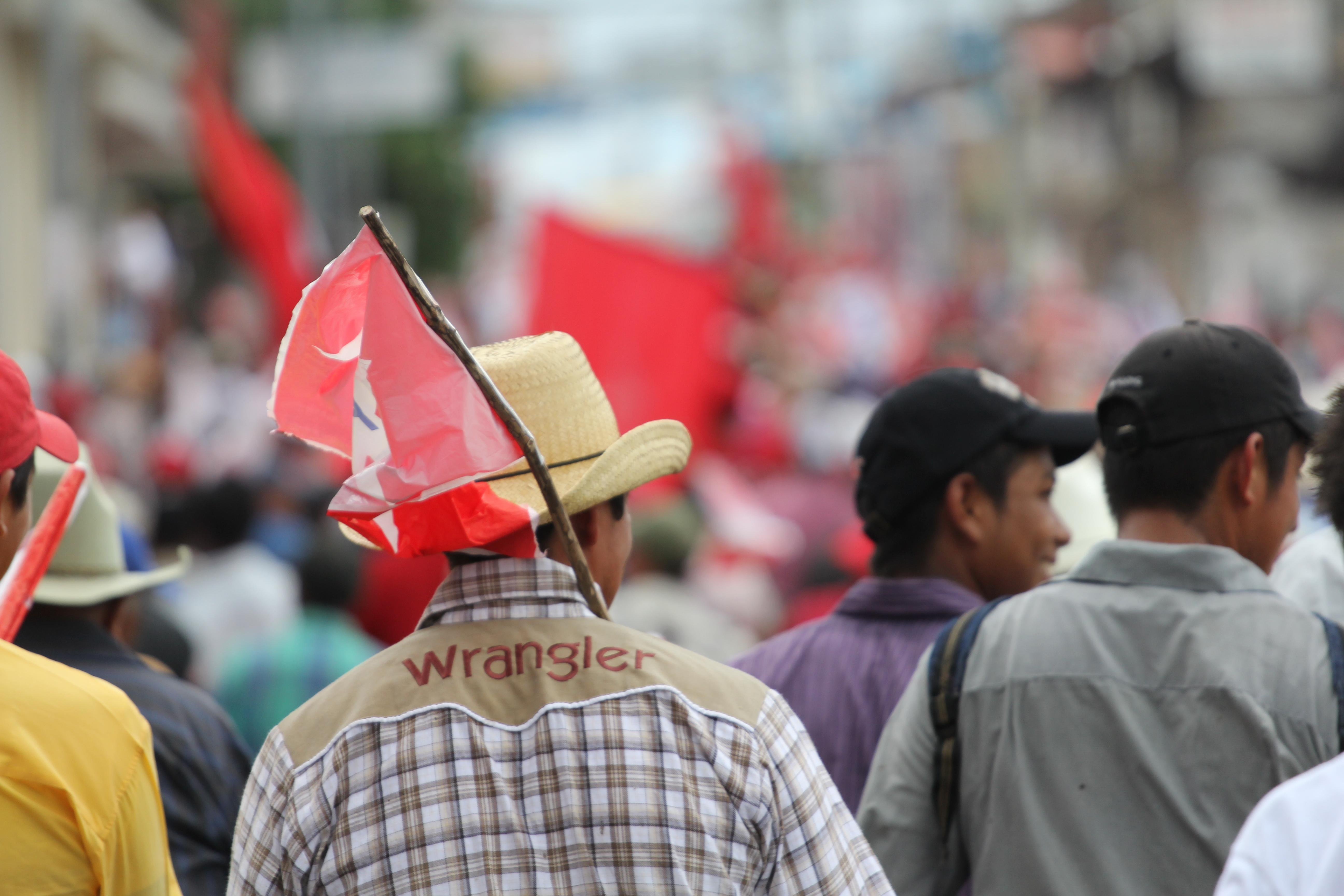 Alianza PLI-UNE. Juigalpa. Chontales